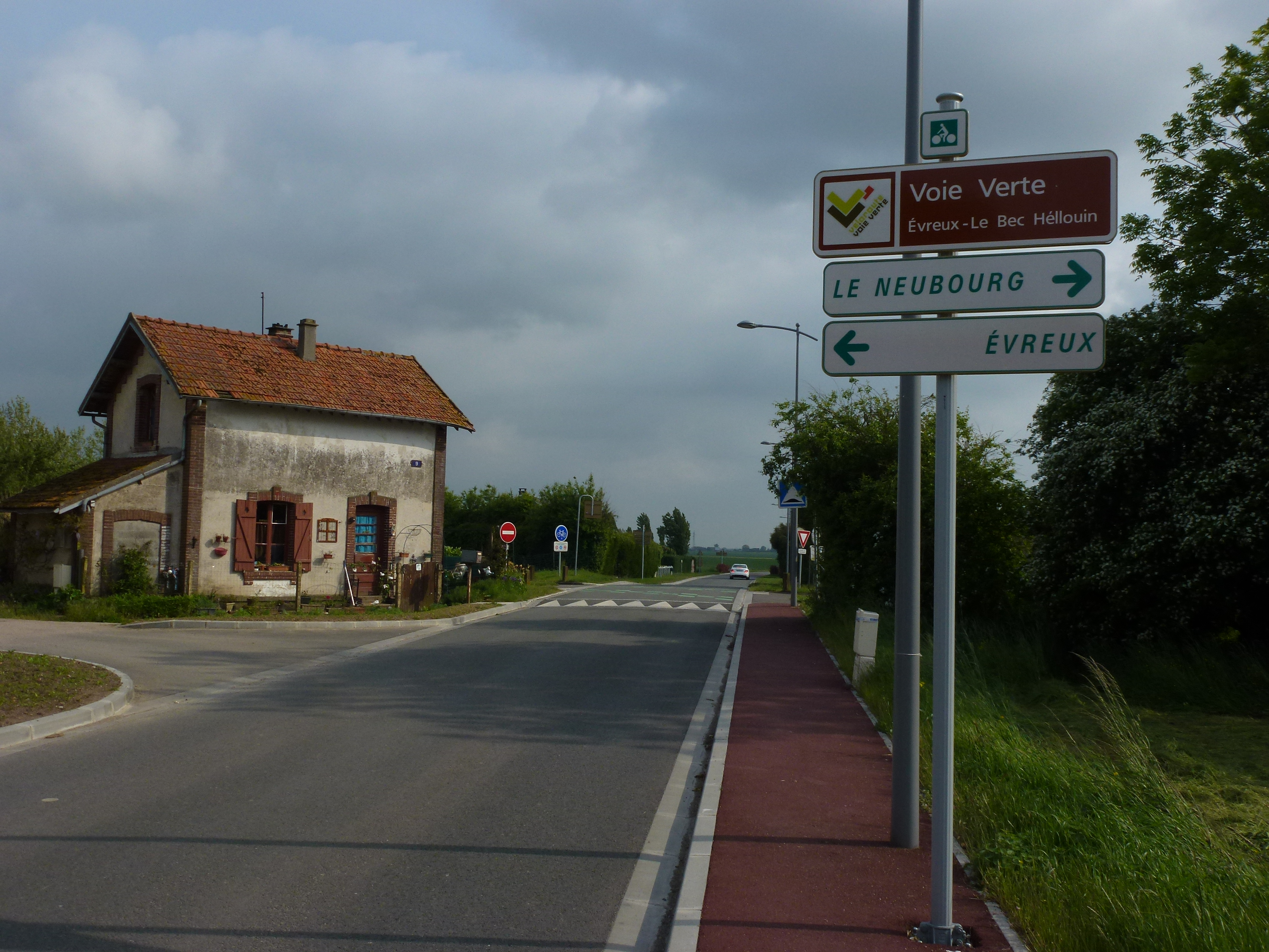 Voie verte Évreux-Vallée du Bec 06, Baquepuis